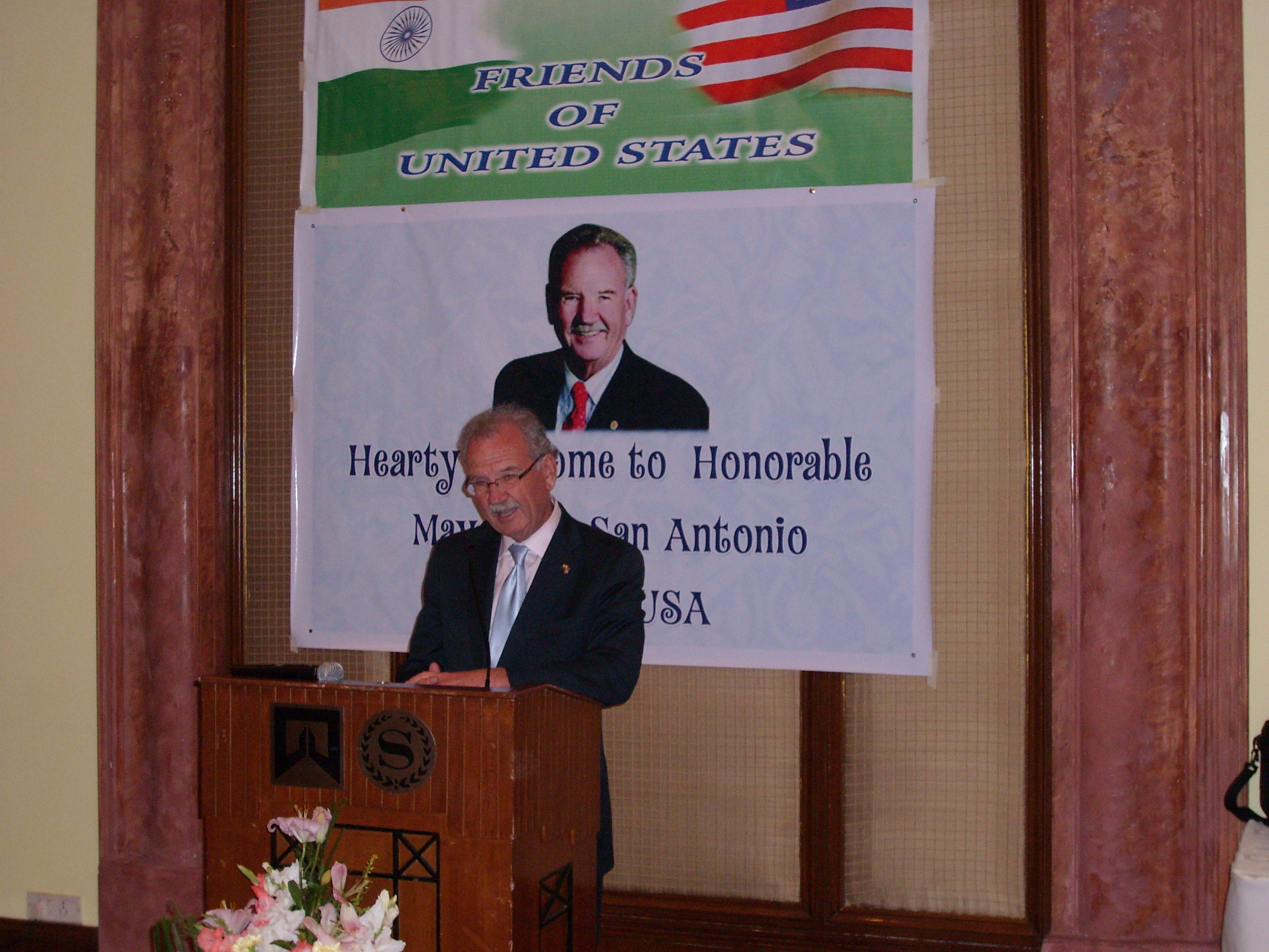 Reception given to Phil Hardberger worshipful Mayor of San Antonio, Texas